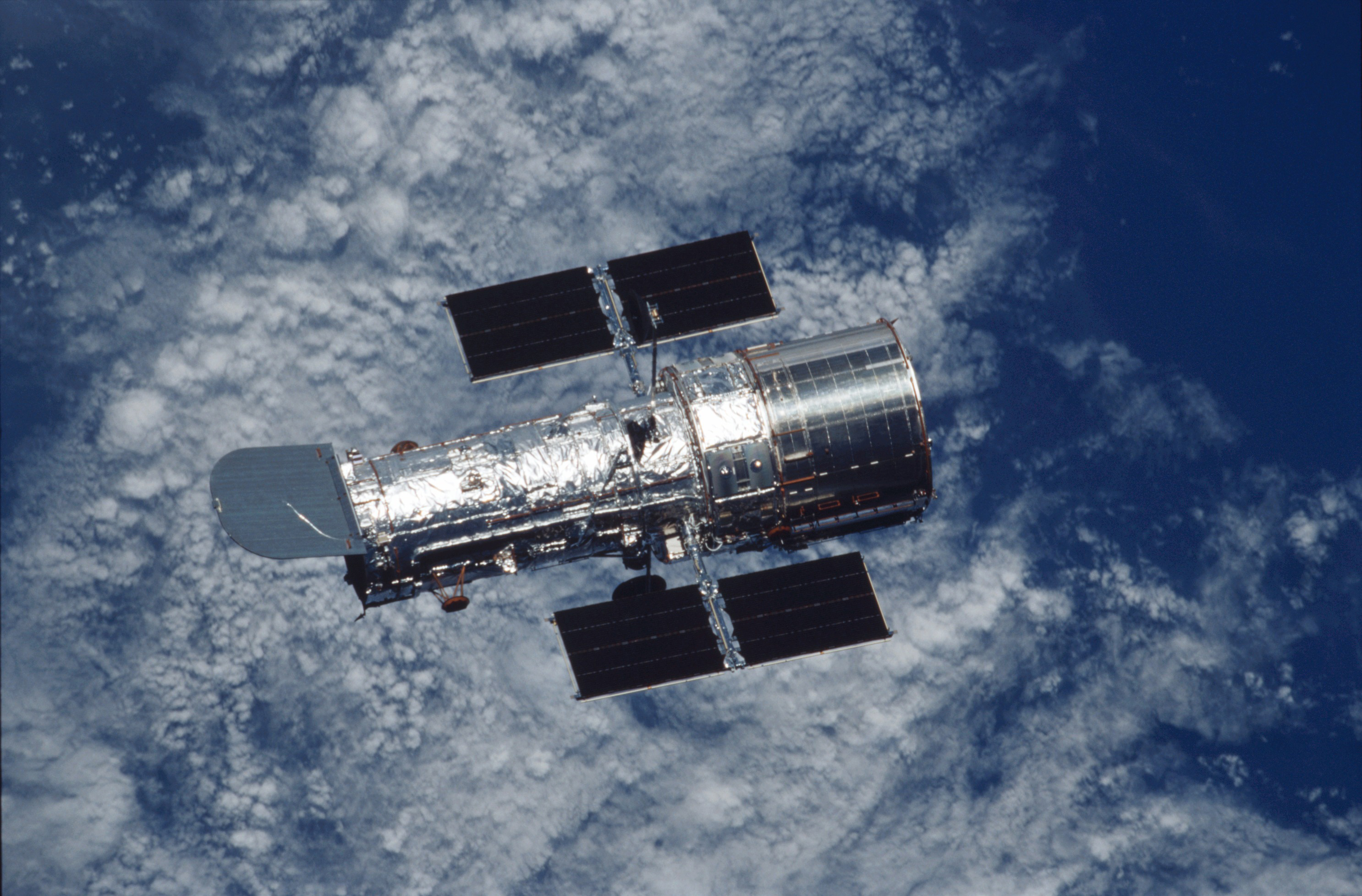 The Hubble Space Telescope (HST) heads back toward its normal routine, after a week of servicing and upgrading by the STS-109 astronaut crew on board the Space Shuttle Columbia. Hubble's fourth servicing mission gave the telescope its first new instrument installed since STS-82's 1997 repair mission – the Advanced Camera for Surveys. It doubled Hubble's field of view and records information much faster than Hubble's Wide Field and Planetary Camera 2.